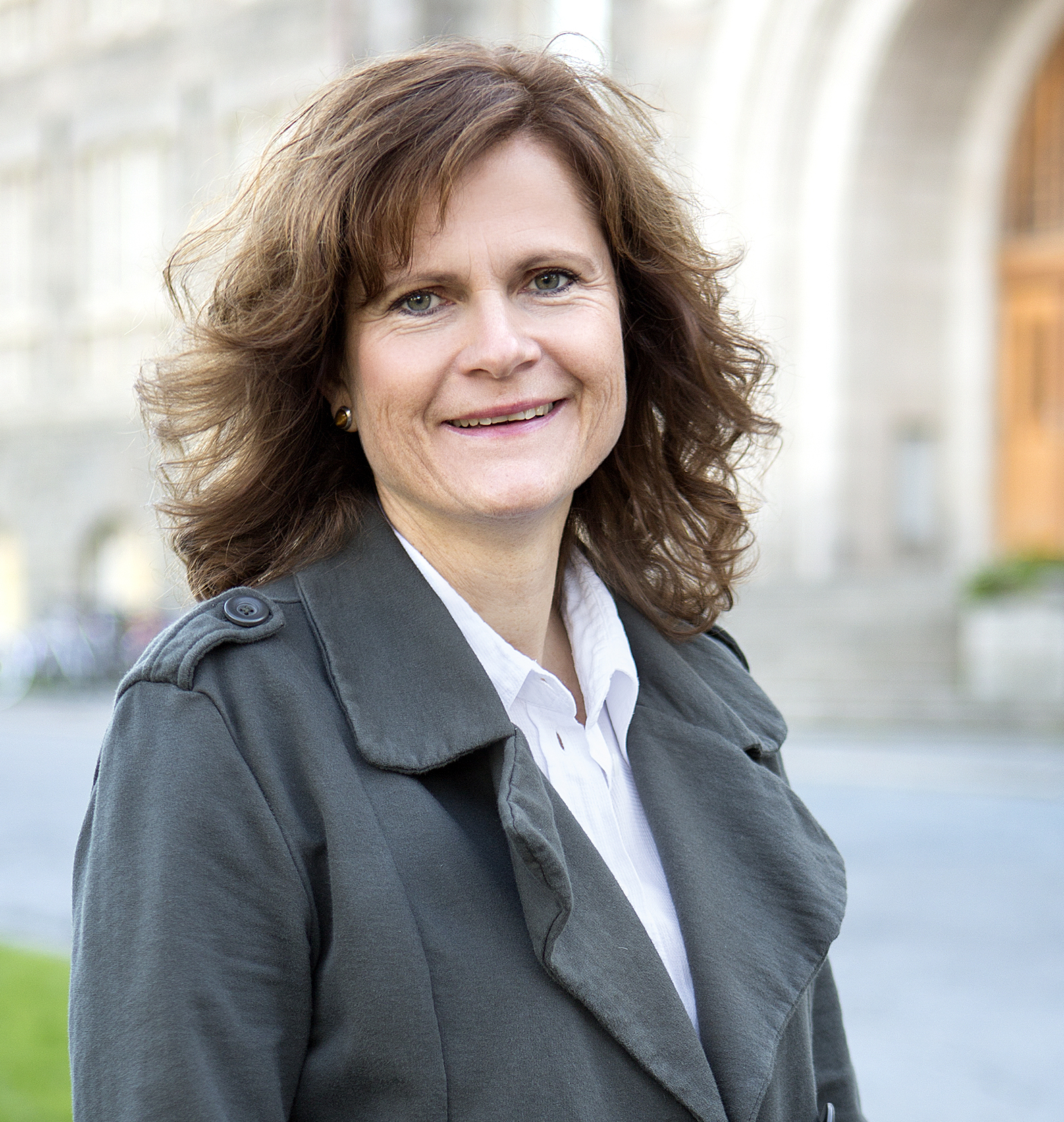 The Norwegian professor in Operations Research at NTNU Trondheim, Marielle Christiansen